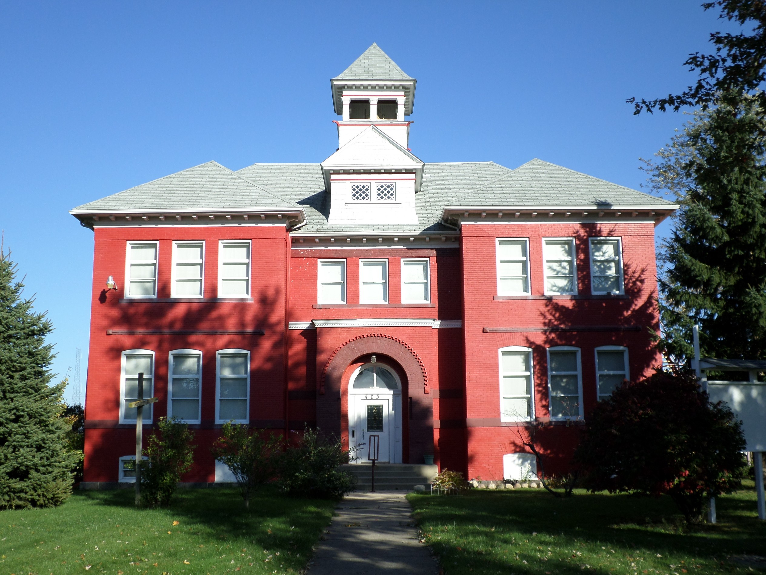 The South Side School, located at 405 S Oak St, Durand, MI